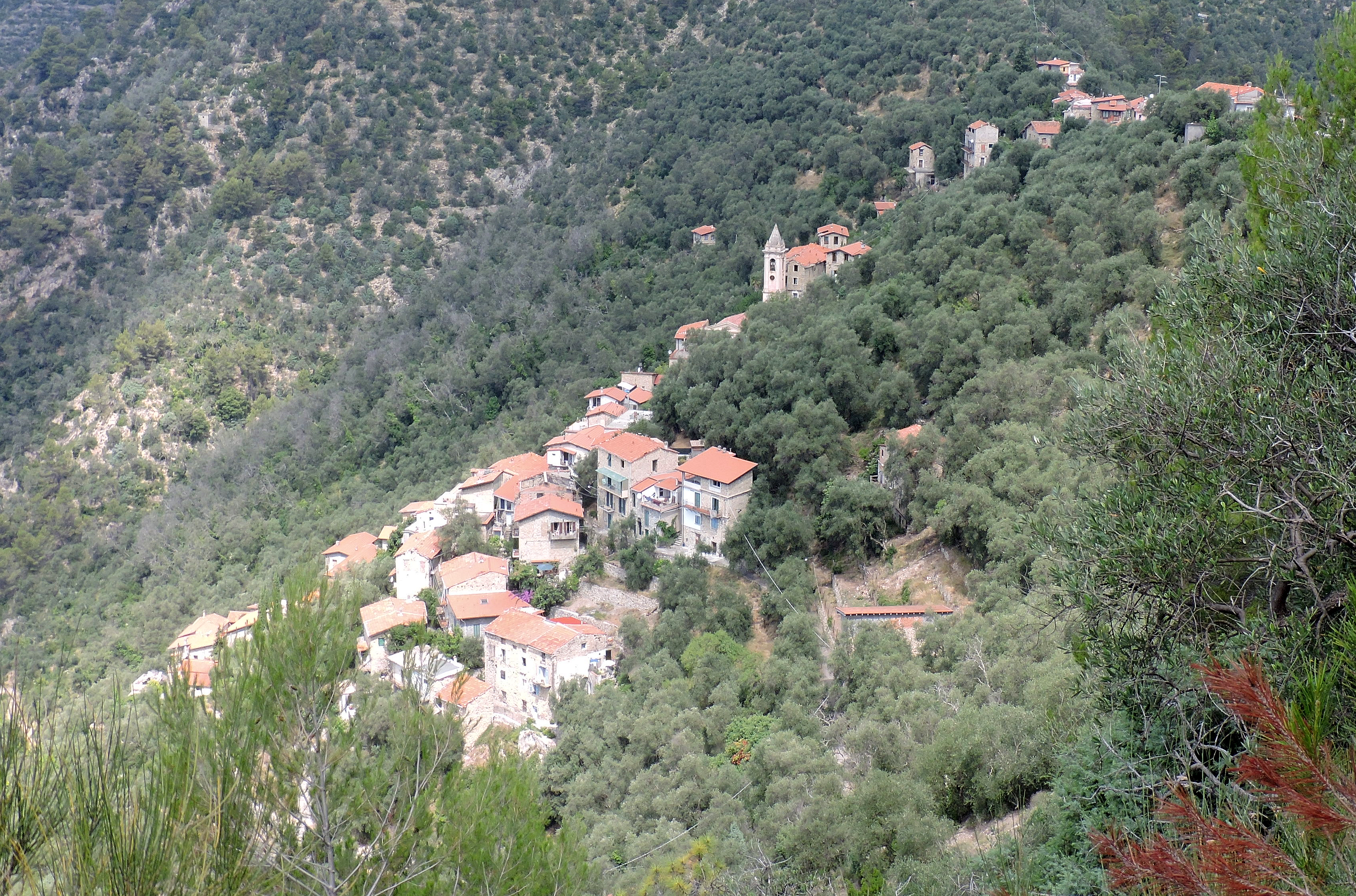 Collabassa (Airole, IM, Italy)